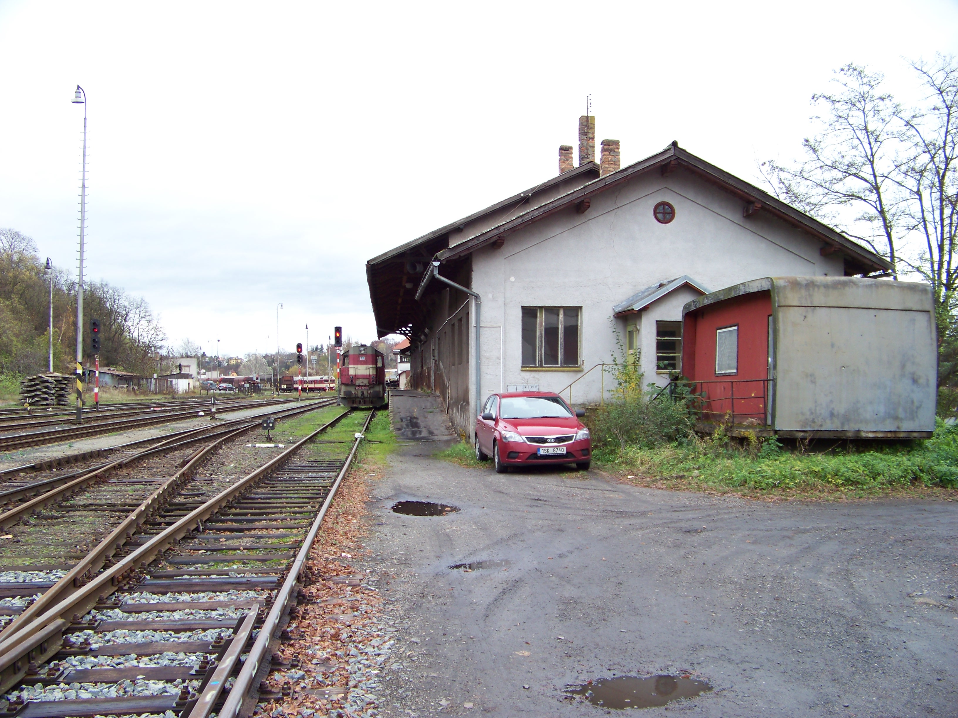 Mladá Boleslav-Čejetičky, Mladá Boleslav District, Central Bohemian Region, Czech Republic. Nádražní street, a train station Mladá Boleslav hlavní nádraží.